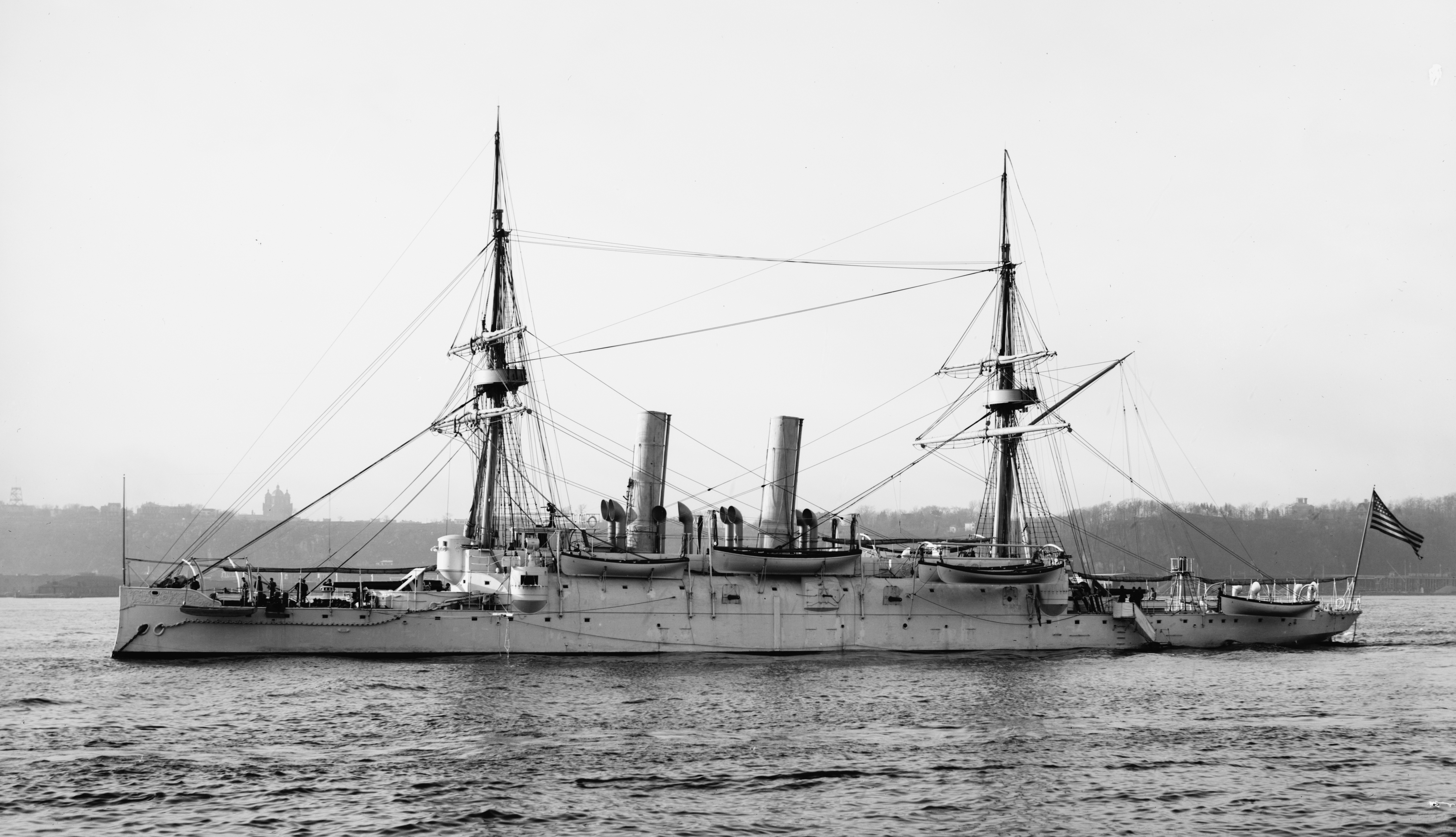 USS Atlanta